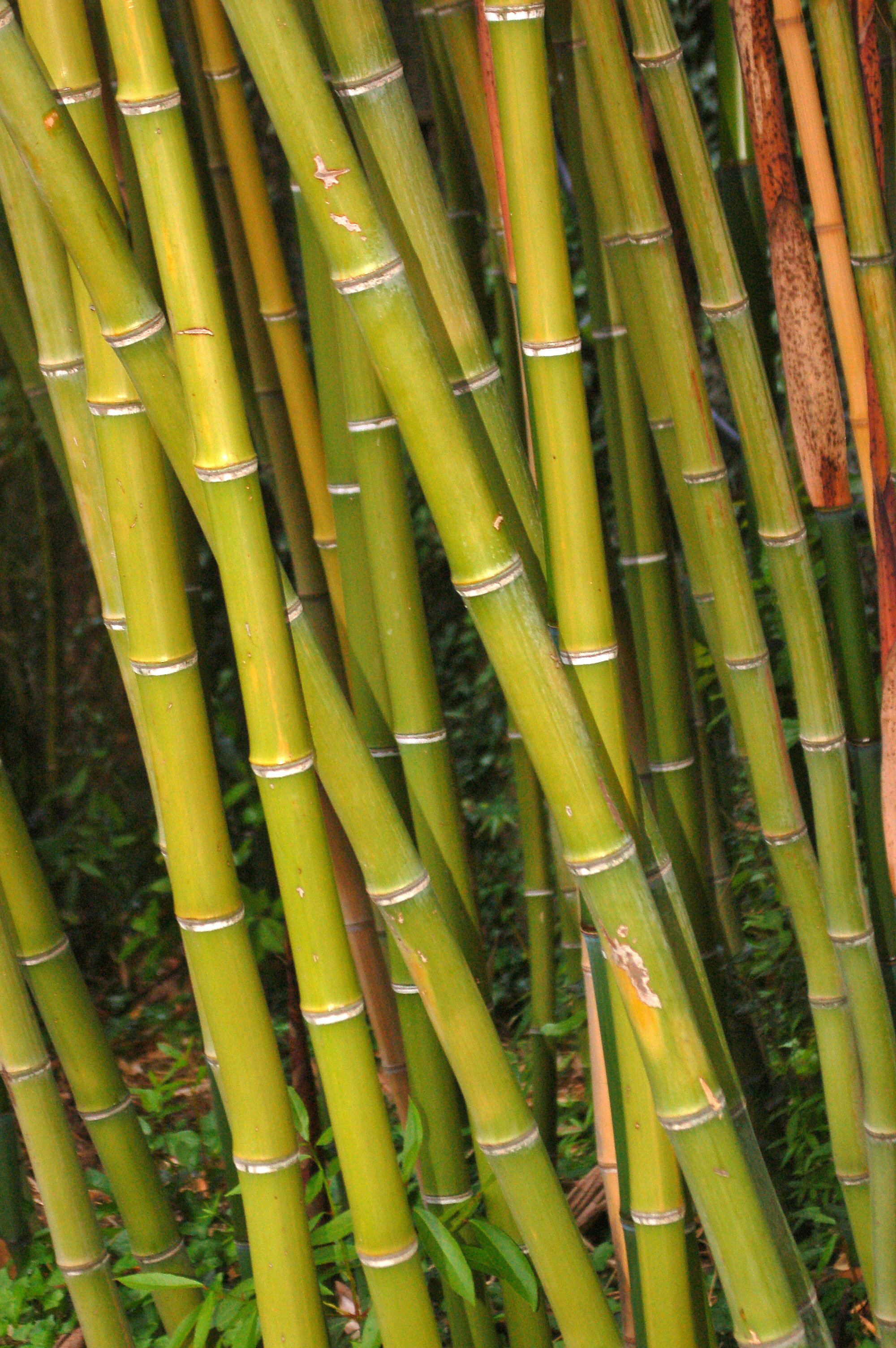 Phyllostachys bambusoides at the botanical garden of Villa Durazzo-Pallavicini, Genova Pegli